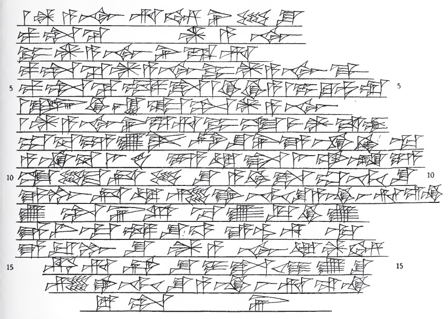 Line art for the dedicatory cone VAT 2764, which commemorates Aššur-rā’im-nišēšu's reconstruction of the inner city wall of Aššur